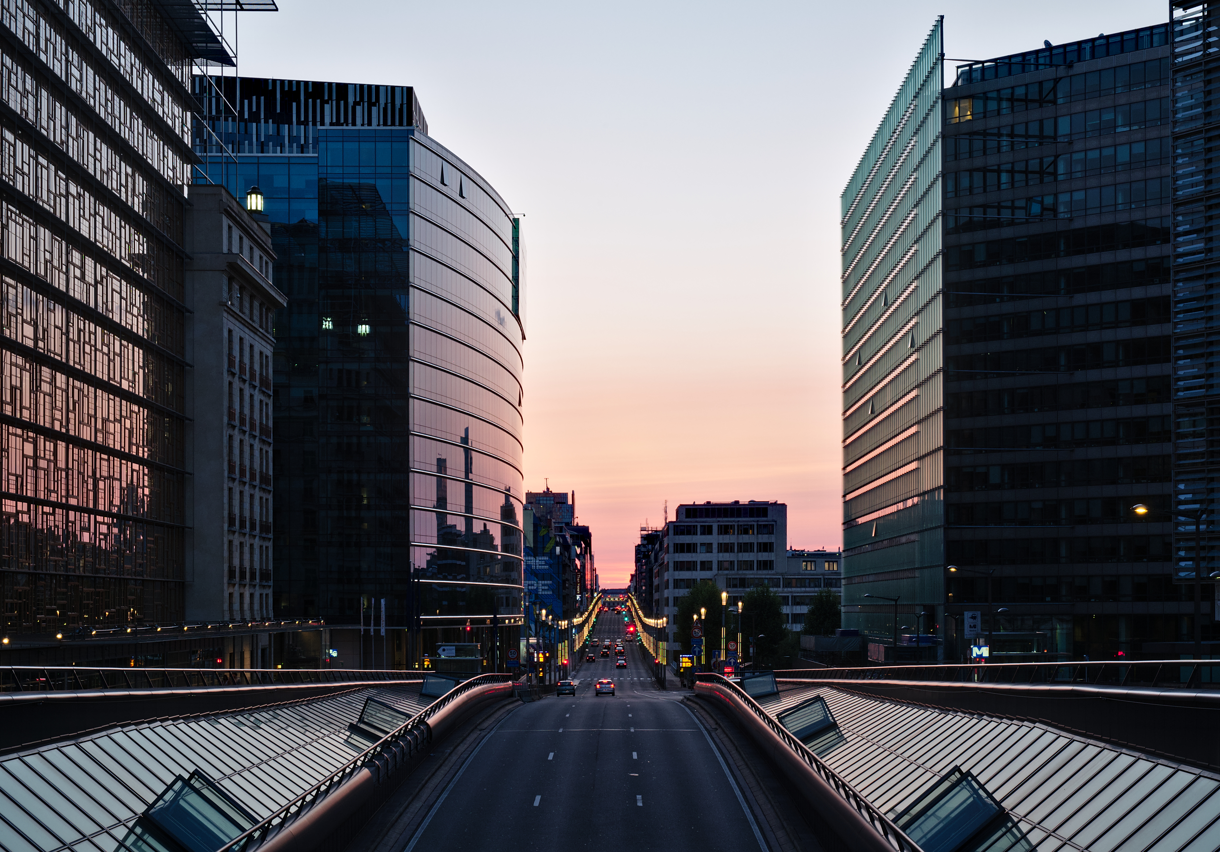 Rue de la Loi, European Quarter in Brussels during civil twilight